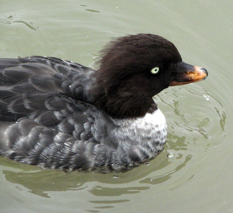 Barrow's Goldeneye (Bucephala islandica) - female